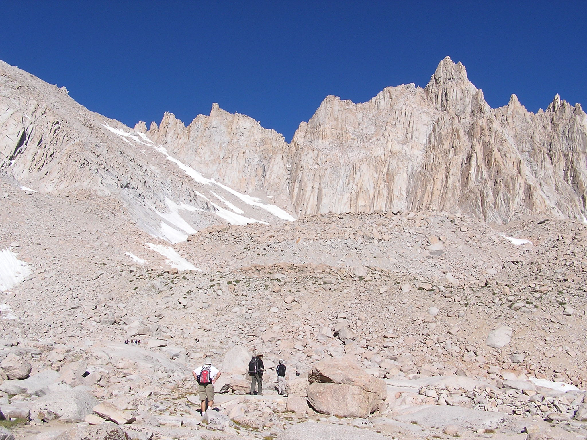 The base of the switchbacks on the Mount Whitney Trail, next to High Camp. Sierra Nevada, California.